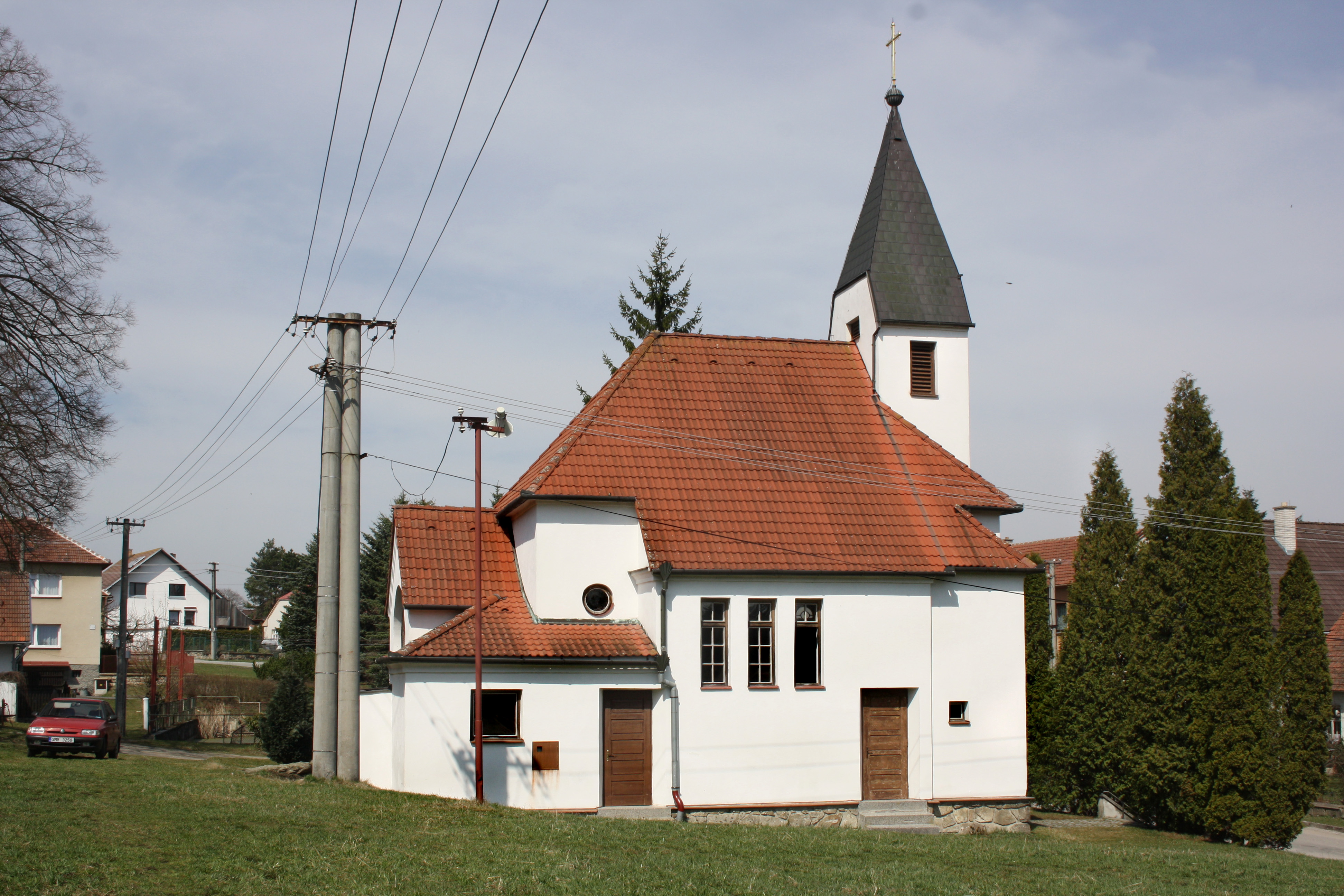 Church in Hrbov, part of Velké Meziříčí